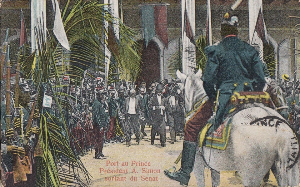 Photograph showing Haitian General Antoine Simon (center, wearing top hat) following his investiture as president by the Haitian Senate in December 1908. Contemporary postcard.